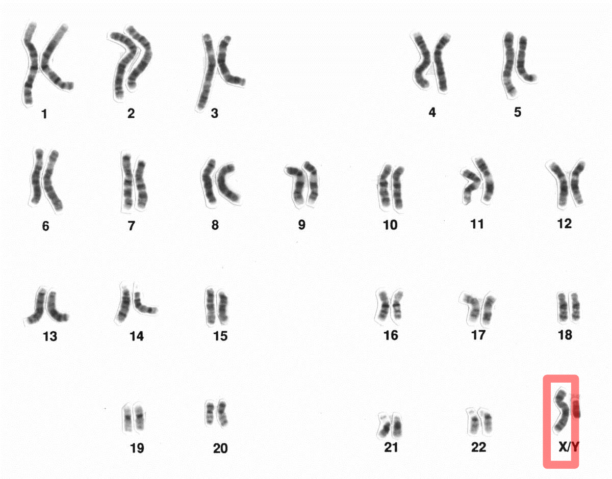 Human male Karyotype after G-banding. X chromosome highlighted